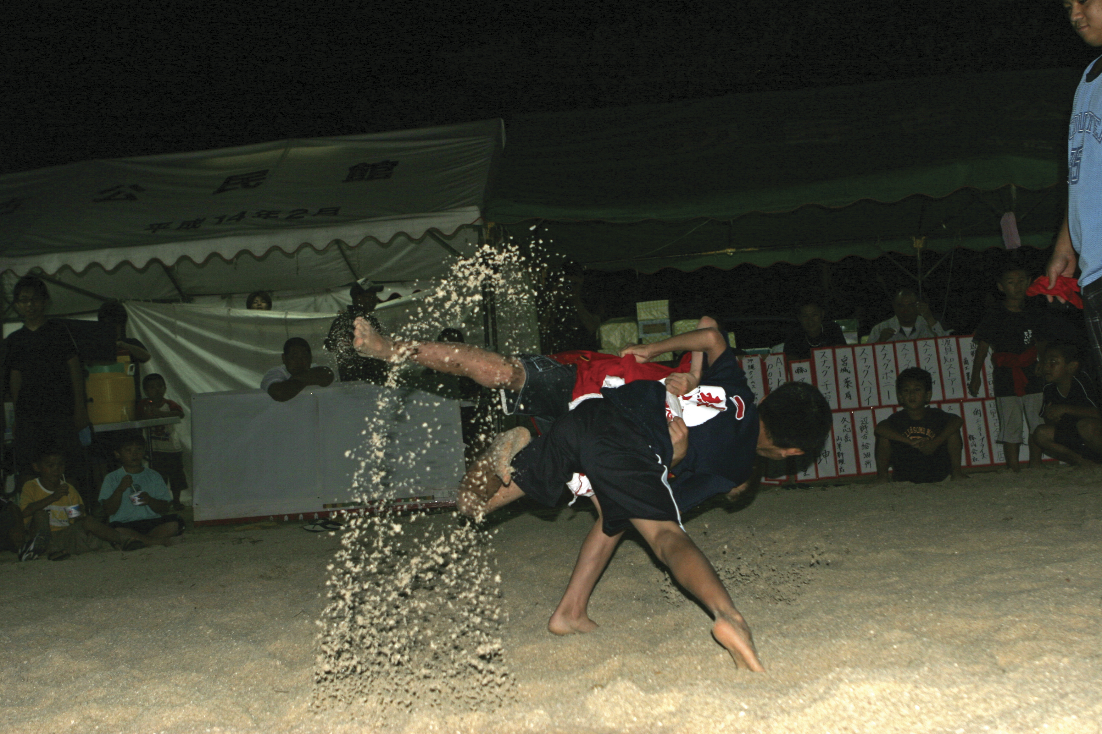 Oliver Spencer Jr., 9, has his legs swept out from under him during the children's competition of the annual Okinawa Sumo Wrestling Tournament. Spencer went on to win this match but lost in the second round of competition for his age group.